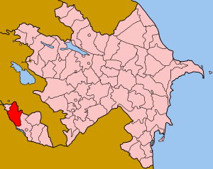 Map of Azerbaijan showing Sharur (Şərur) rayon.